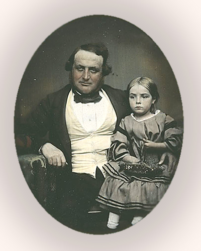 William Walter Cargill was a wine merchant, bank manager, Captain in the British army, colonialist in Otago and founder of Dunedin, New Zealand. With Agnes Moodie Cargill